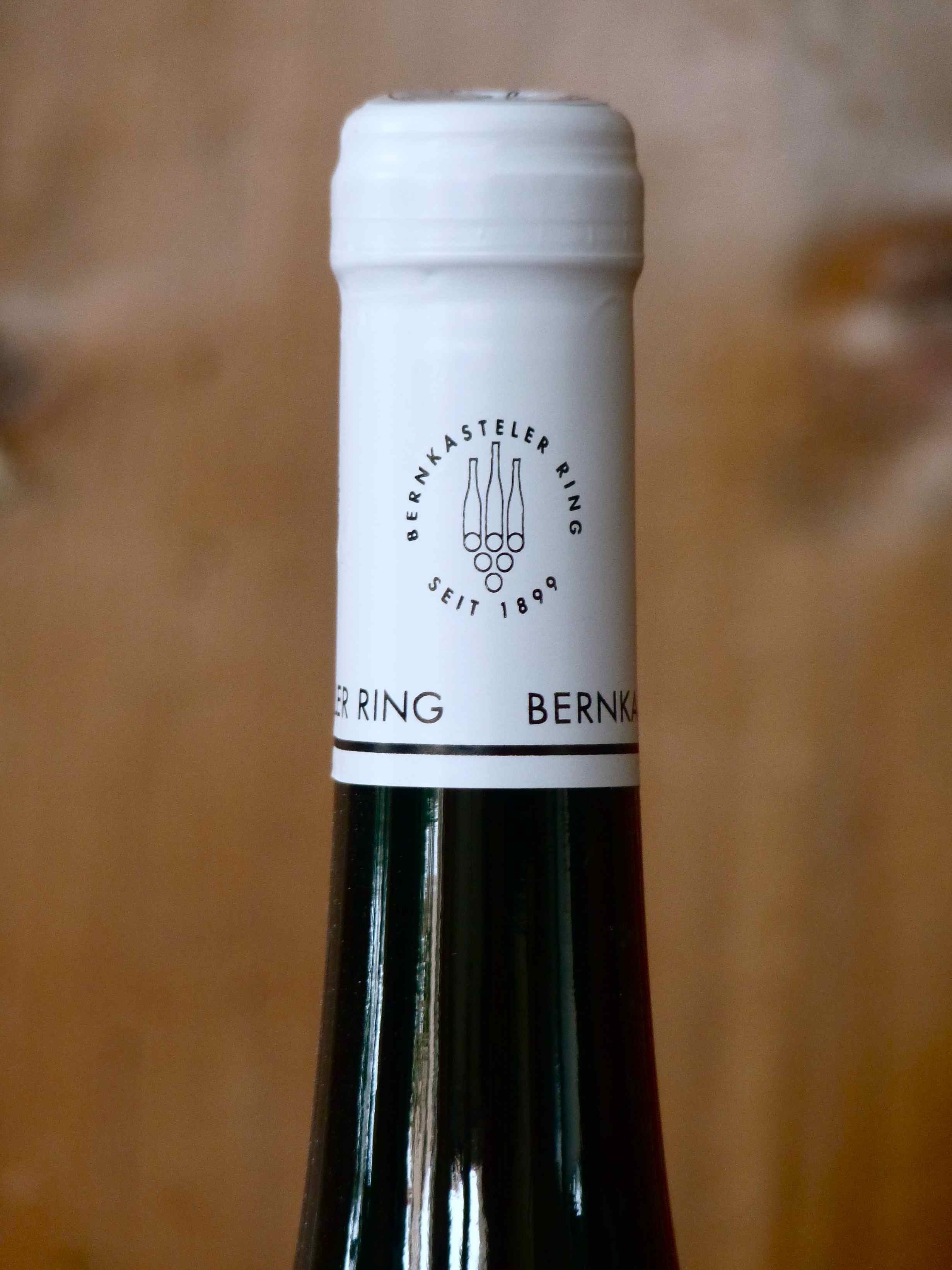 Bernkastler Ring logotype on capsule. Bernkasteler Ring is an organisation of various wineries in the Mosel region.